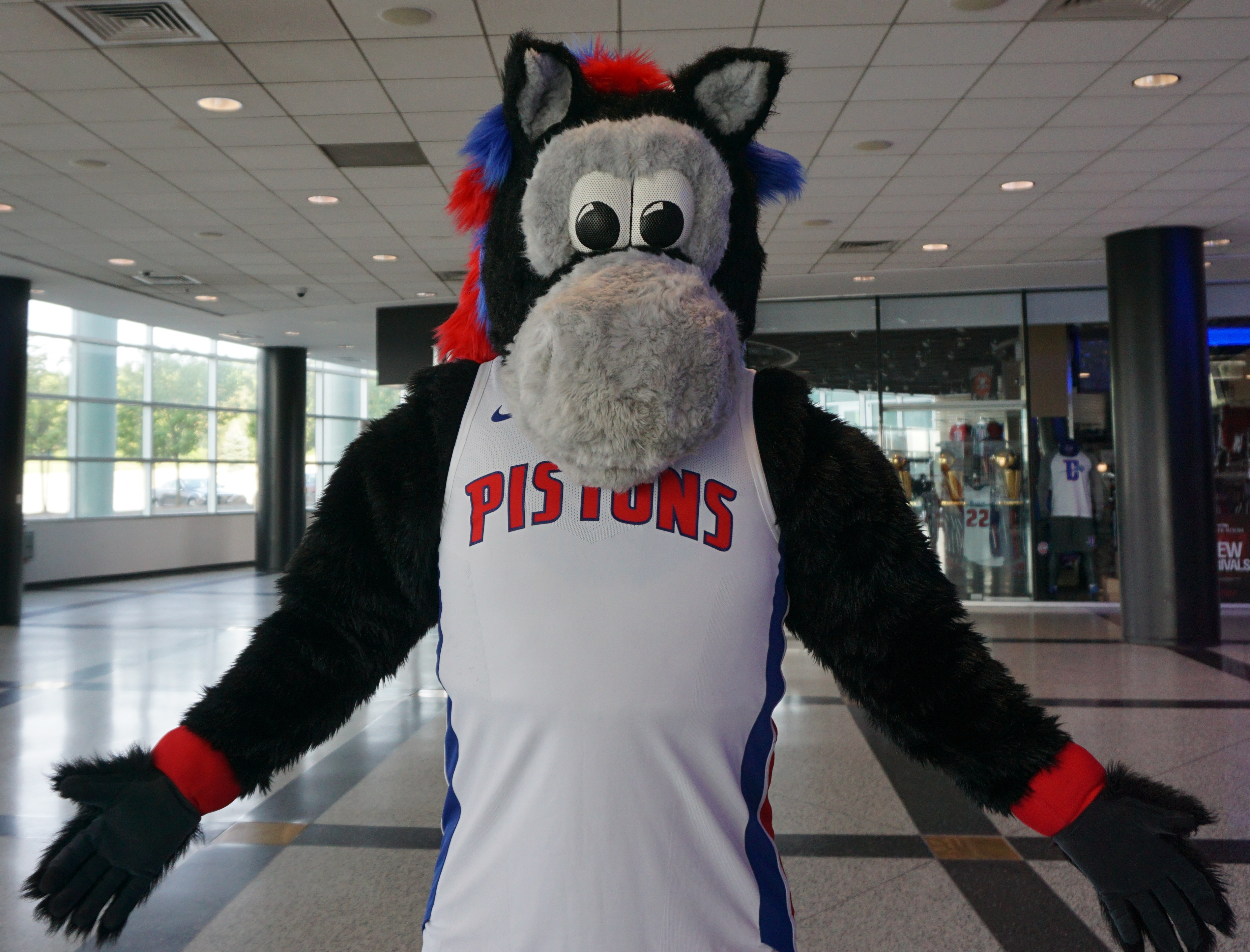 Pistons Mascot, Hooper, saying hello to the camera